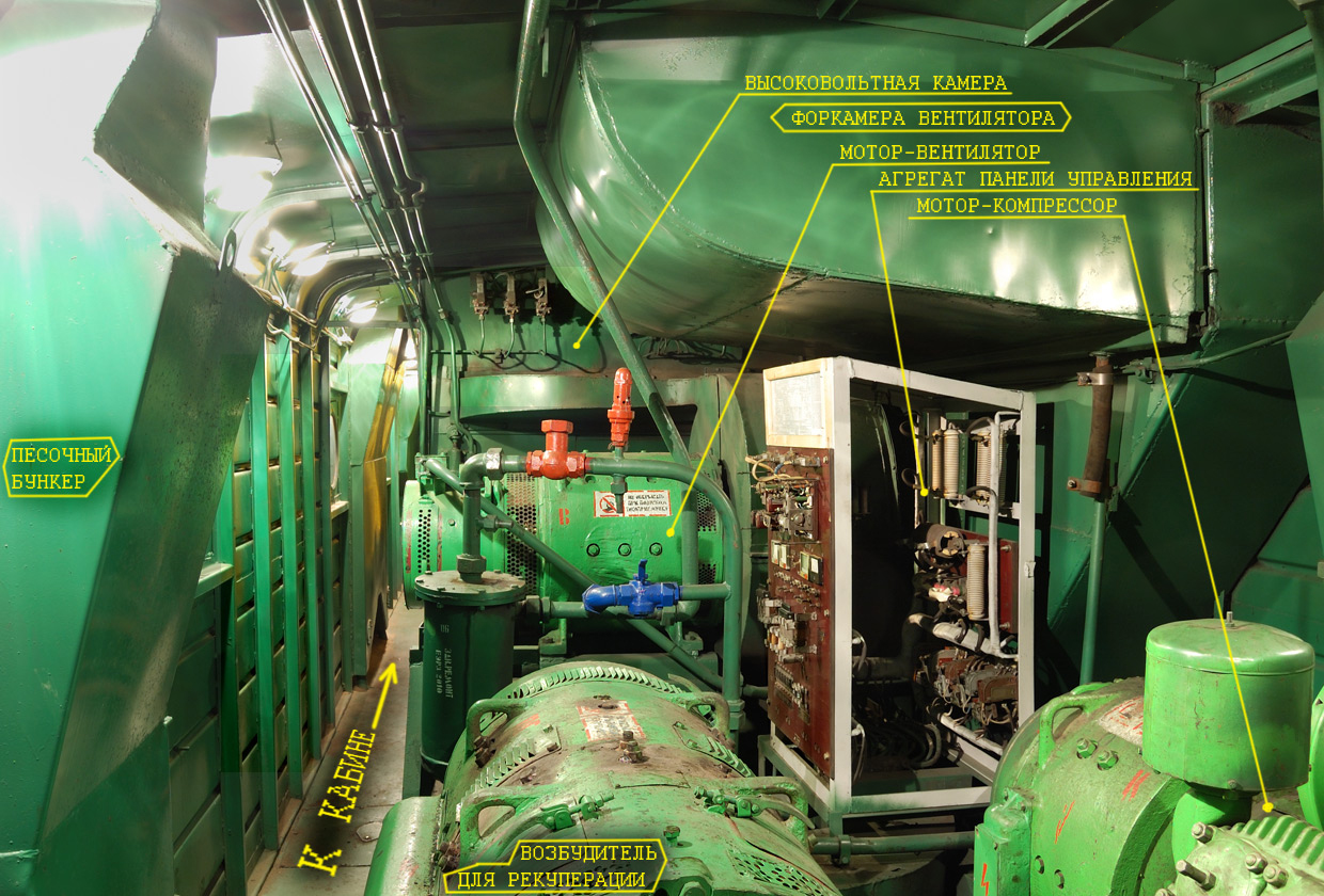 Interior of VL11 locomotive Песочный бункер — Sand tank Высоковольтная камера — High-voltage chamber Мотор-вентилятор — Ventilator Агрегат панели управления — Low-voltage block Мотор-компрессор — Compressor К кабине — To cab